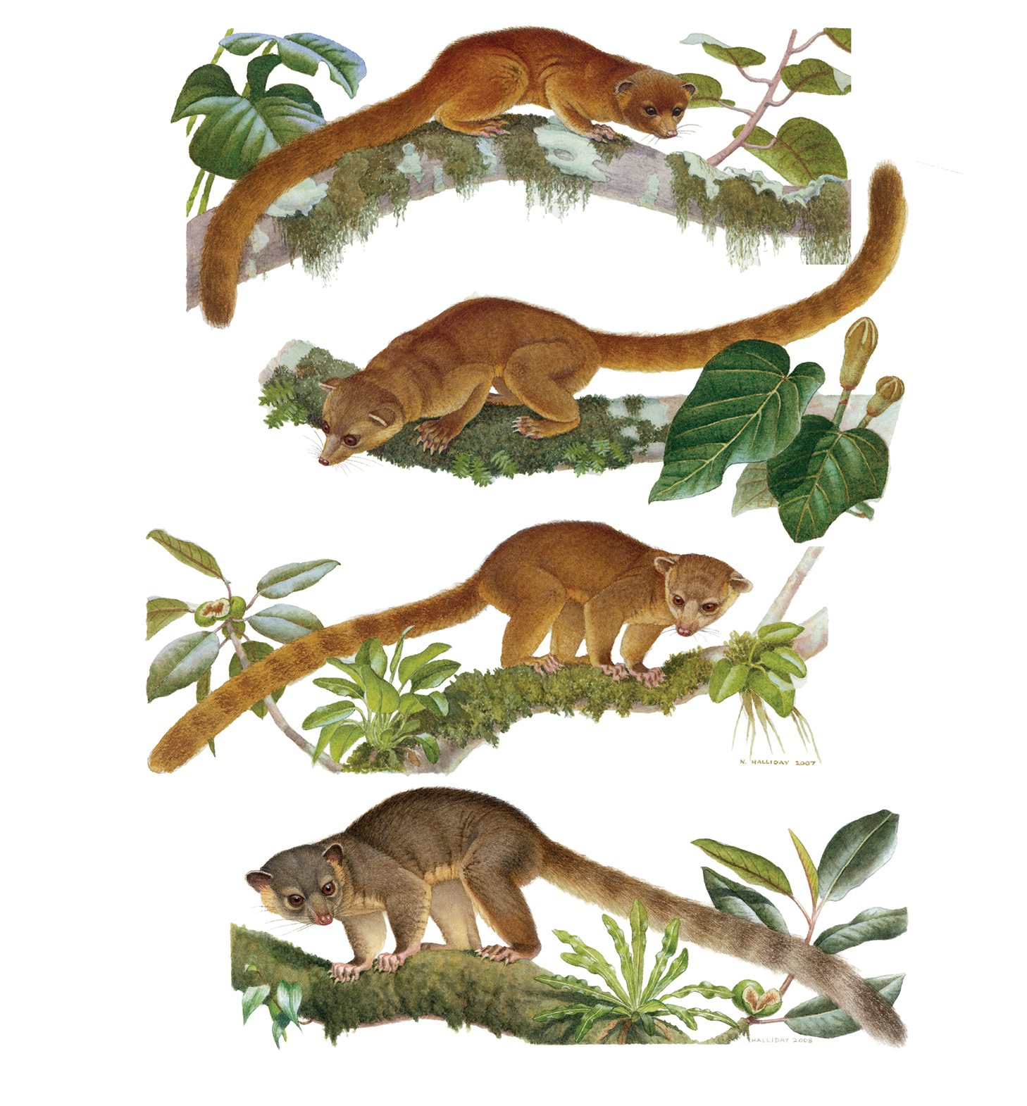 Illustrations of the species of Bassaricyon. From top to bottom, Bassaricyon neblina (Bassaricyon neblina ruber of the western slopes of the Western Andes of Colombia), Bassaricyon medius (Bassaricyon medius orinomus of eastern Panama), Bassaricyon alleni (Peru), and Bassaricyon gabbii (Costa Rica, showing relative tail length longer than average). Artwork by Nancy Halliday.